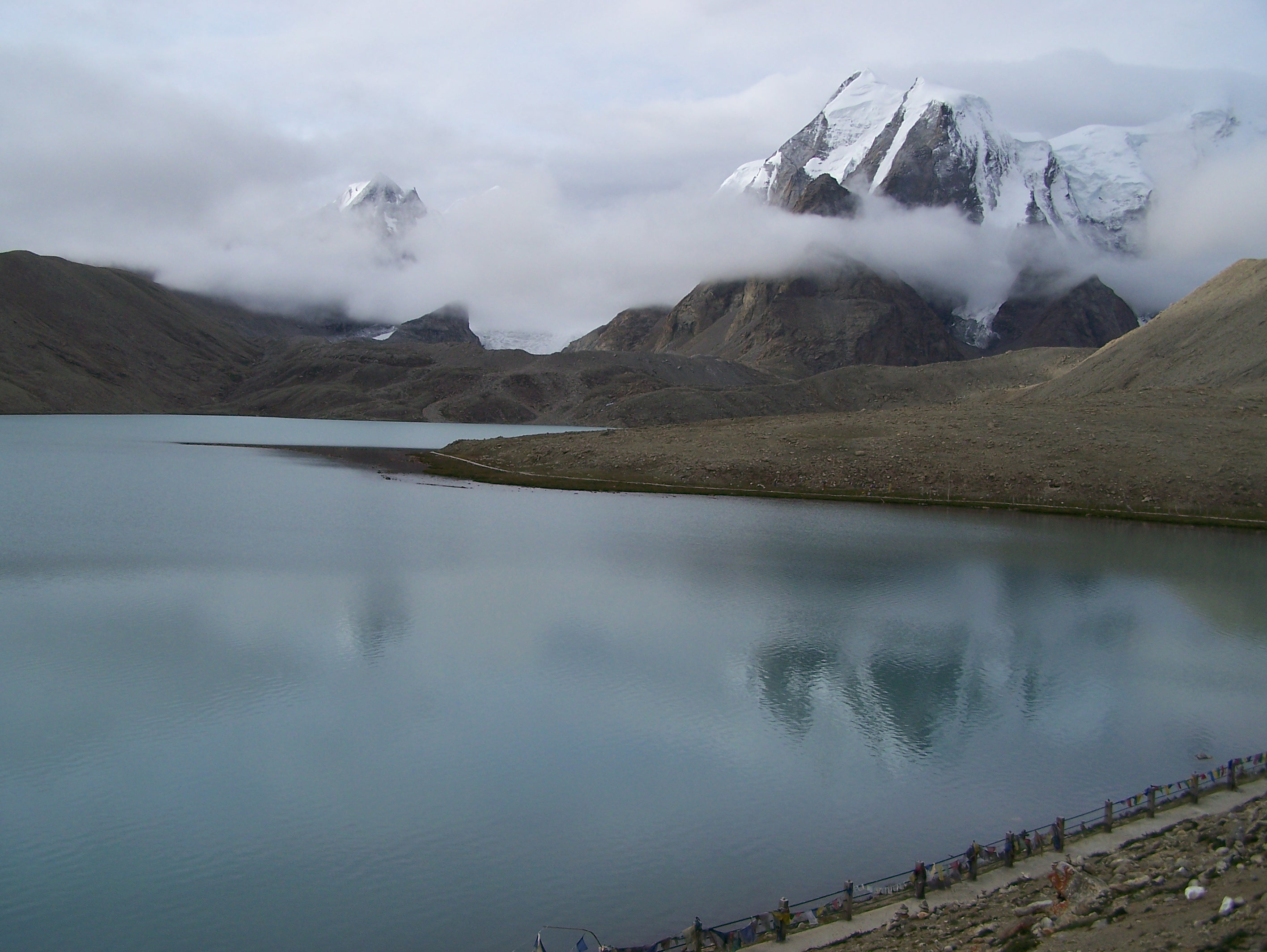 Gurudongmar Lake in late August.